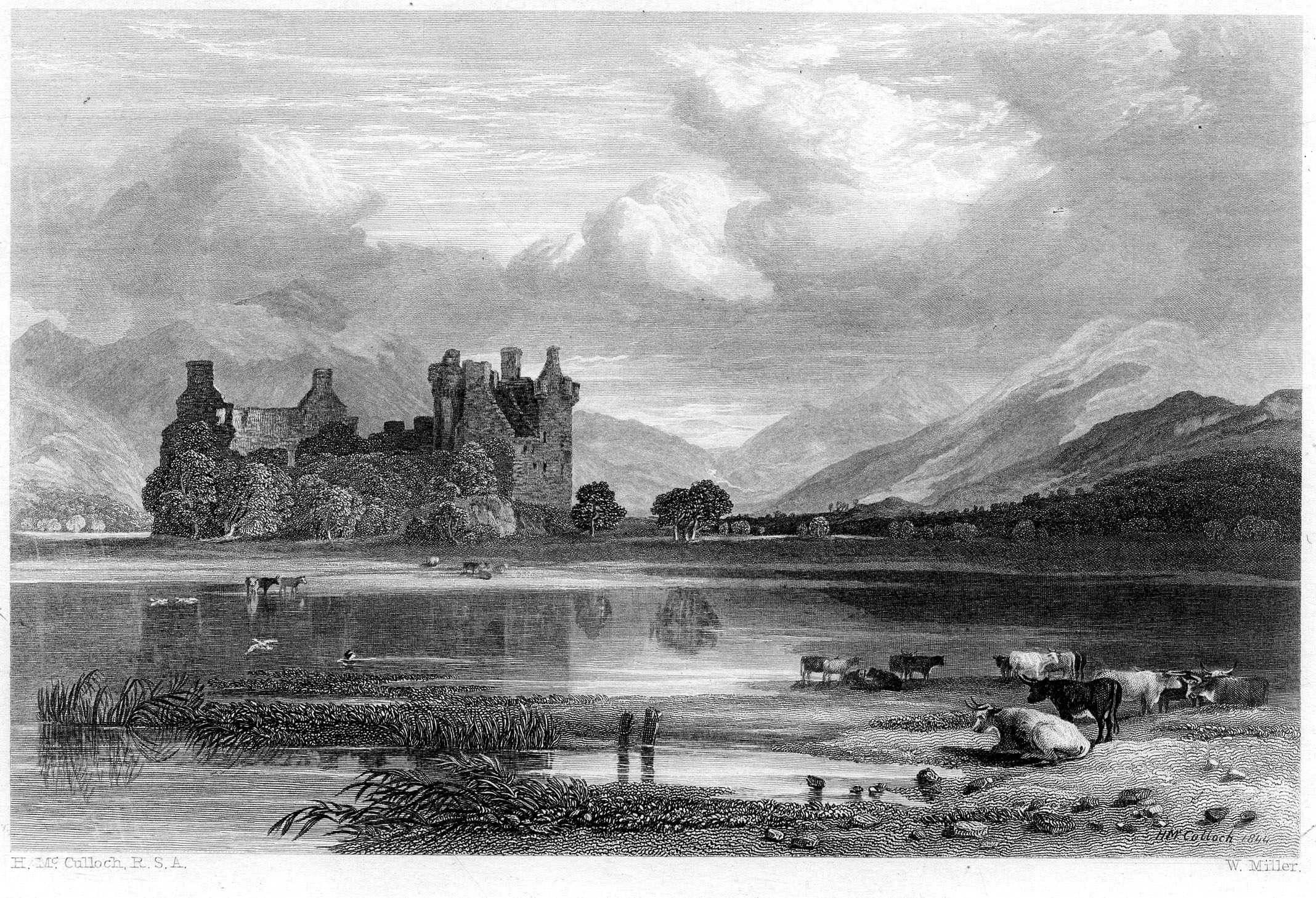 Kilchurn Castle engraving by William Miller after H McCulloch, published in Waverley Novels vol x (Abbotsford Edition). Walter Scott. Edinburgh and London: Robert Cadell, Houlston & Stoneman 1842 - 1847